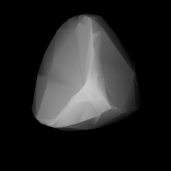 3D convex shape model of 1328 Devota, computed using light curve inversion techniques. J. Hanuš, J. Ďurech, M. Brož, B. D. Warner (June 2011). "A study of asteroid pole-latitude distribution based on an extended set of shape models derived by the lightcurve inversion method". Astronomy and Astrophysics 530: A134. ISSN 0004-6361. arXiv